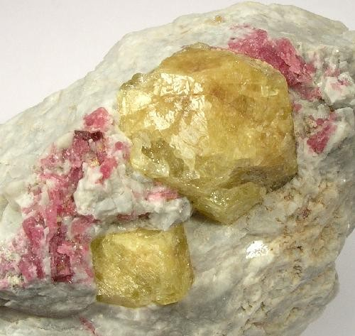 Londonite, Tourmaline (Var.: Rubellite) Locality: Vakinankaratra Region, Antananarivo Province, Madagascar (Locality at ) Size: 6.2 x 4.3 x 3 cm. Classic specimen from Madagascar of large (up to 1.8 cm) yellow Londonite crystals associated with Rubellite. The crystals are exceptional well-formed and large for the species.